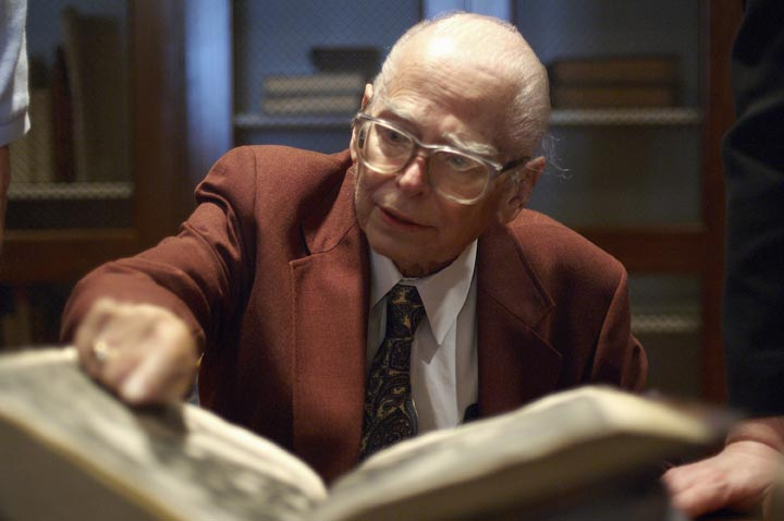 Photograph of Allen G. Debus, 21 July 2006 at the Alchemy Conference, Chemical Heritage Foundation, Philadelphia, PA.